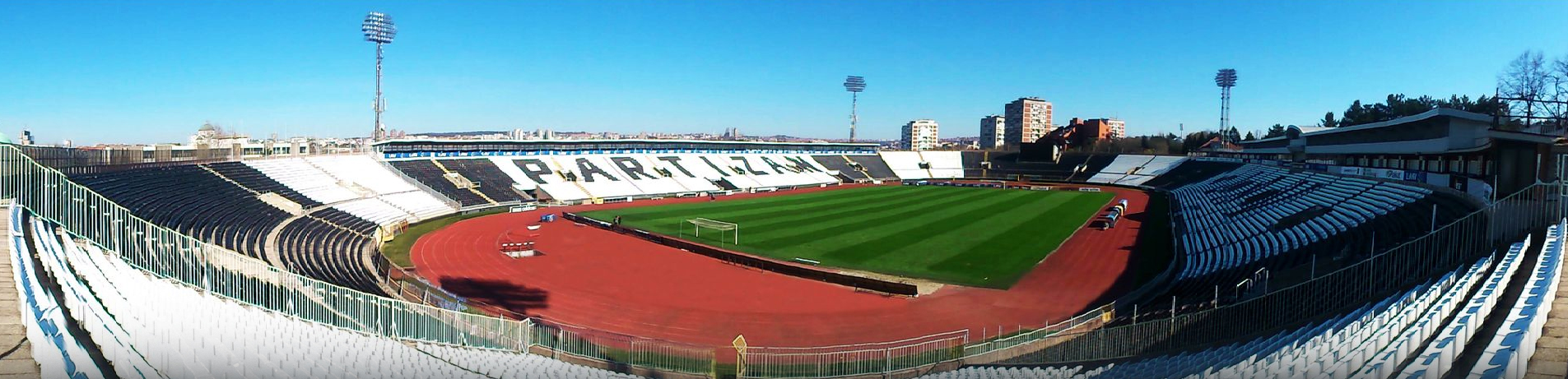 Stadium